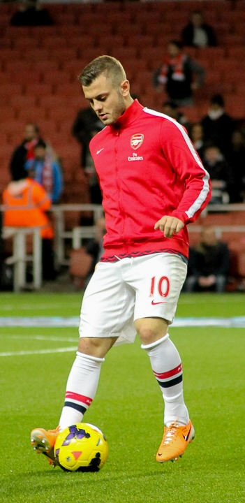 Jack Wilshere warming up for Arsenal ahead of their match against Manchester United on 12 February 2014.